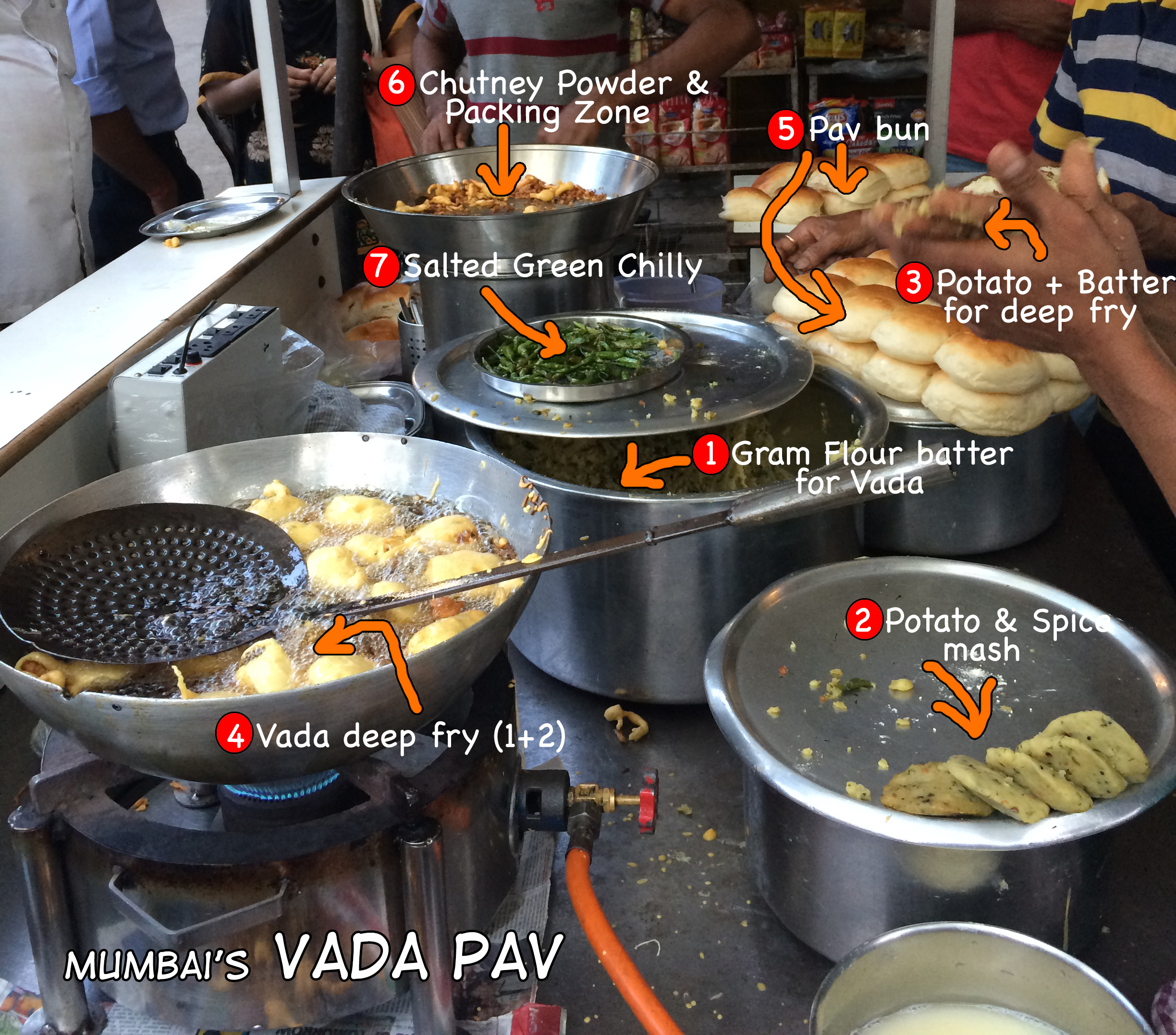 Vada Pav snack preparation in Mumbai, India